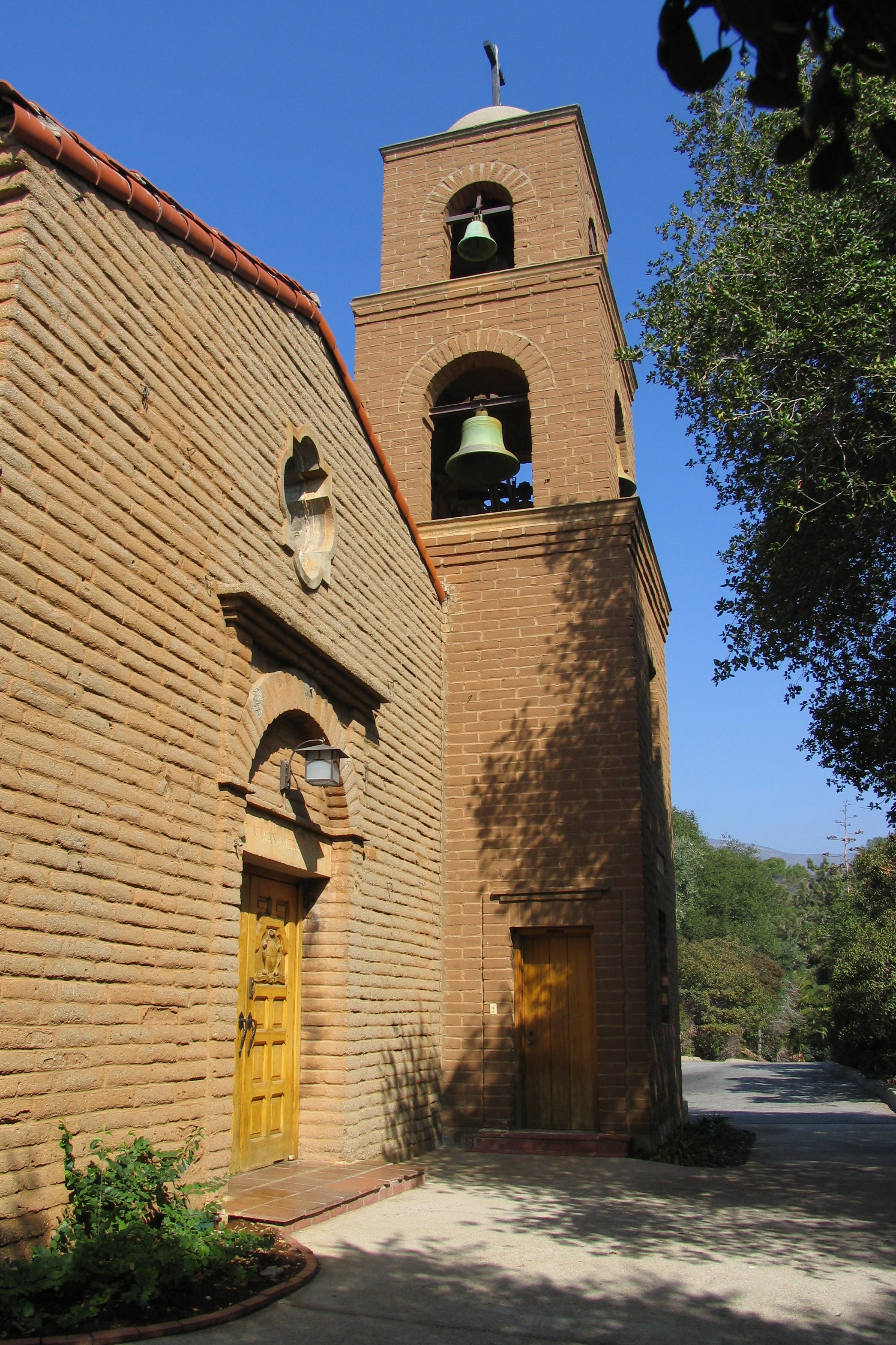 This photo shows the Vivian Webb Chapel's bell tower located on The Webb Schools campus, Claremont, CA.